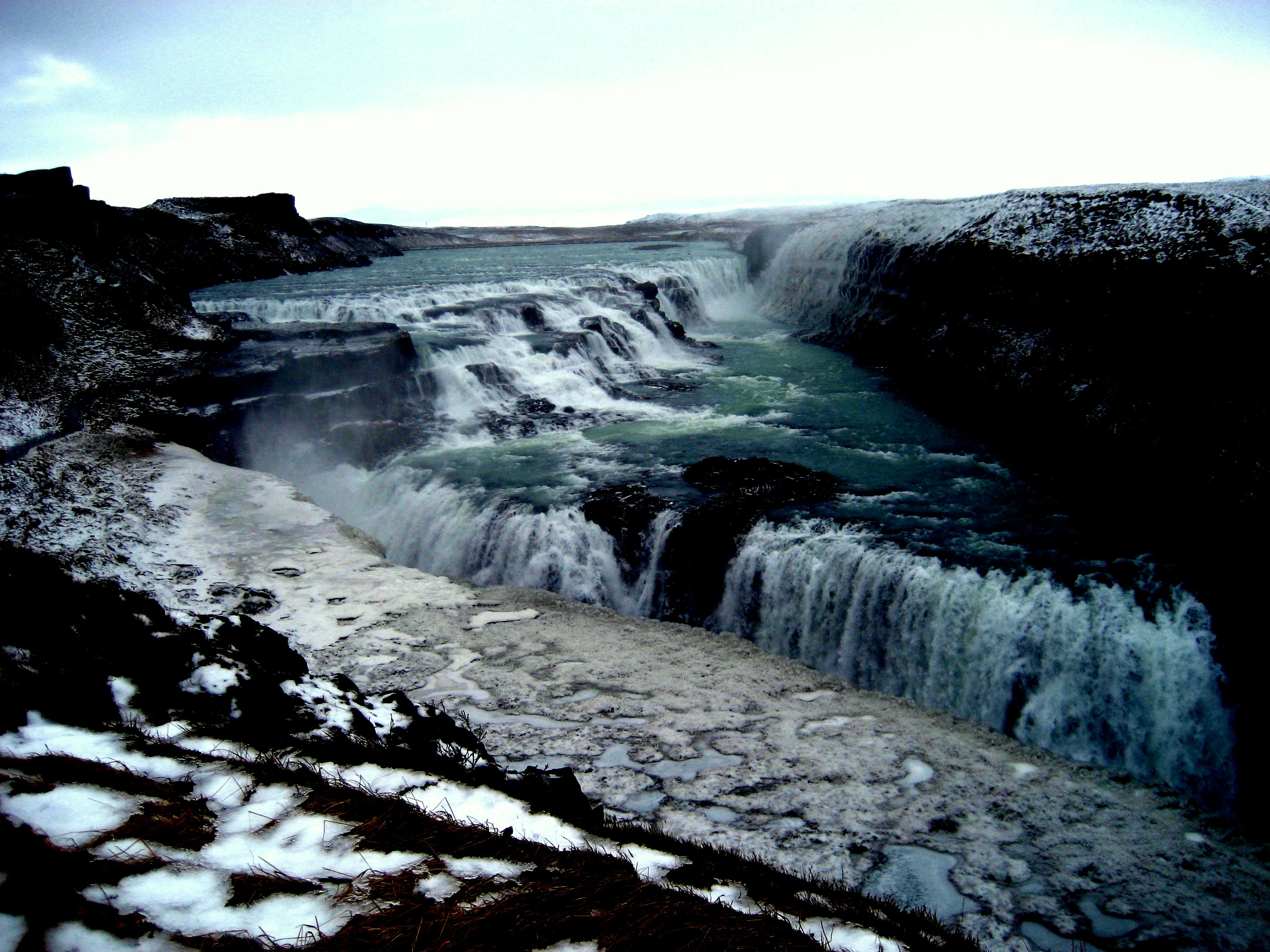 Gullfoss Waterfalls during winter in Kjosarsysla, Iceland